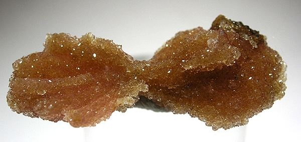 Inesite, Apophyllite, Hubeite Locality: Fengjiashan Mine (Daye Copper mine), Edong Mining District, Daye County, Huangshi Prefecture, Hubei Province, China (Locality at ) Beautiful floater specimen of inesite completely coated by sparkling, transparent apophyllite crystals on the display face (the back is plain ol inesite which is also not bad!). Small brown crystals of hubeite are also present. SUPERB large thumbnail or small miniature-sized specimen from 2001 finds 3.5 x 1.4 x 1